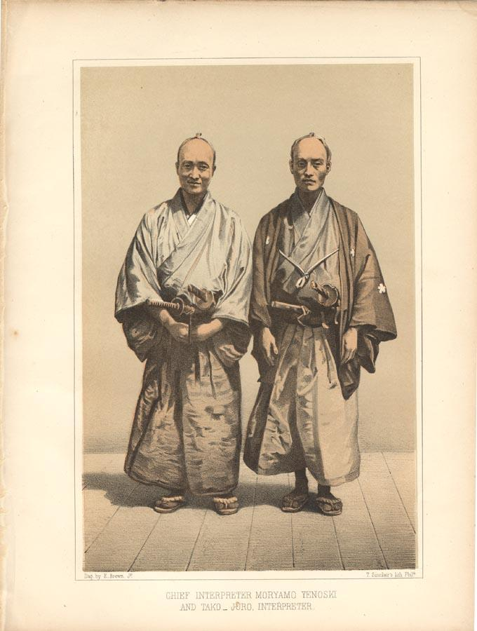 daguerrotype of the (chief) interpreters to commodore Perry, Moriyama and Tokojiro, on behalve of the Tokugawa shogun